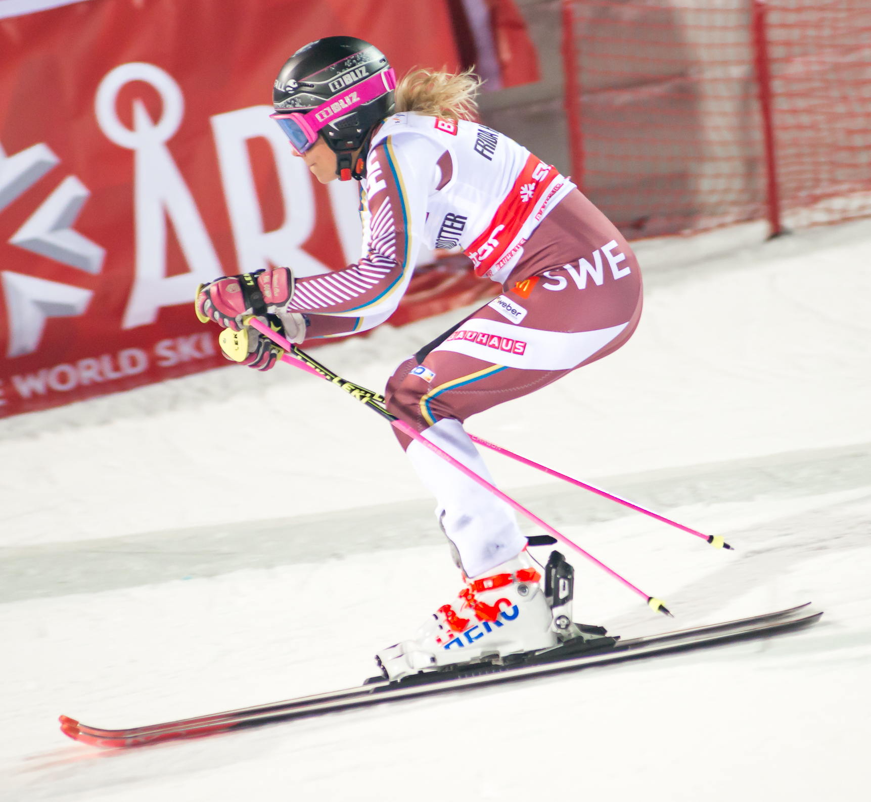 Frida Hansdotter pose Photo by Roland Osbeck